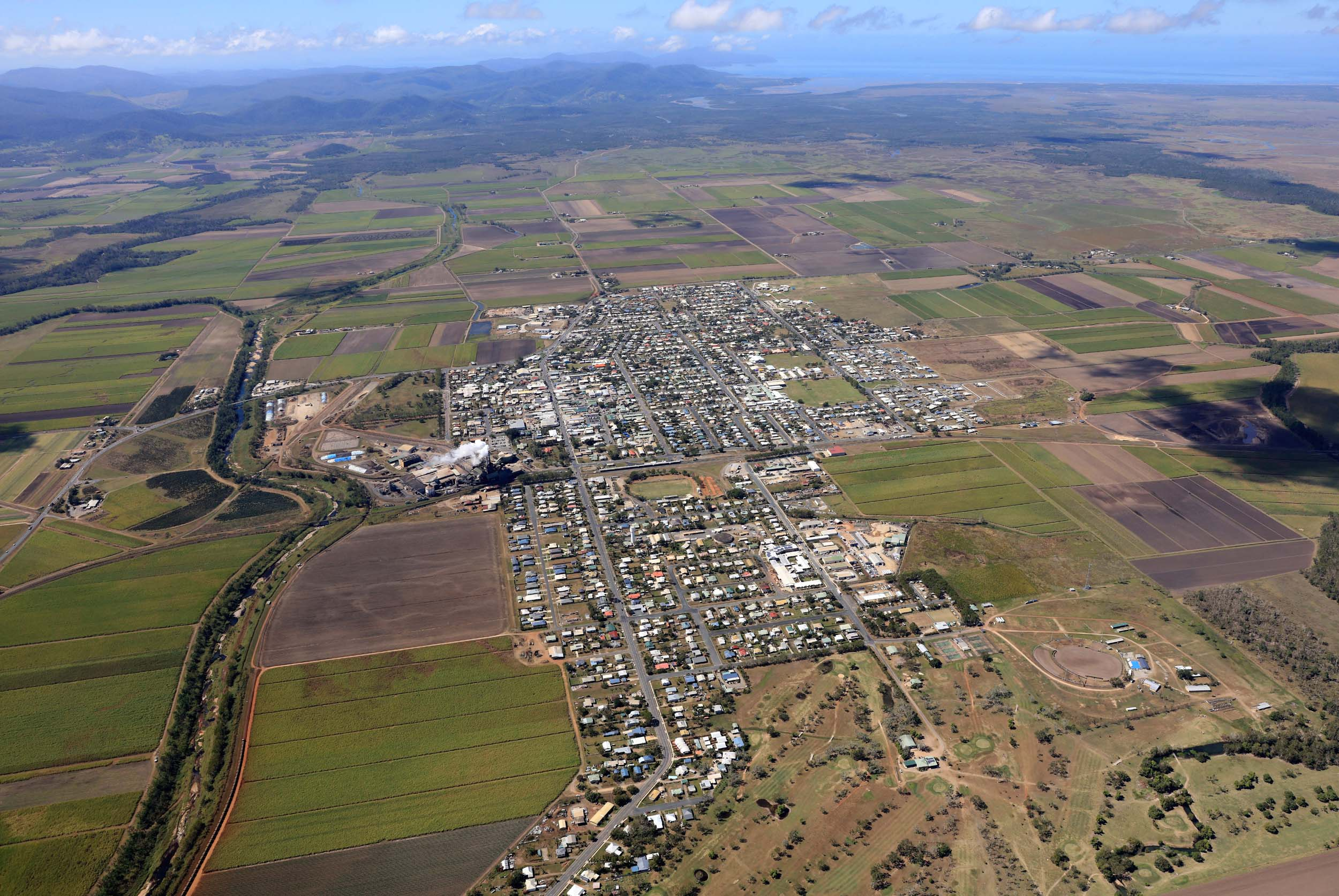 An aerial image of the town of Proserpine, Queensland, Australia in August 2017.